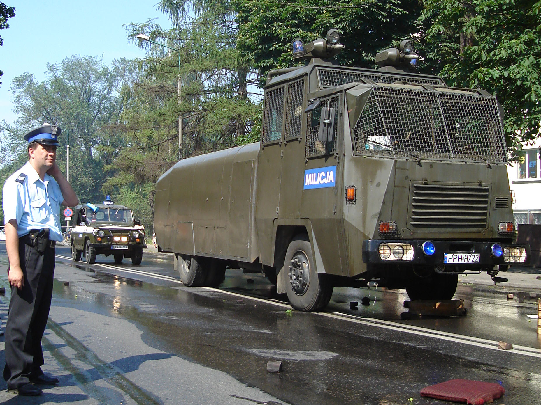 Staging of Radom political protests of 1976. A Polish Police water cannon Jelcz Hydromil 2 in markings of Militia (Milicja Obywatelska, the Police of the communist period). The inscription form is not accurate, only for show purpose, and Hydromil 2 entered production around 1983.